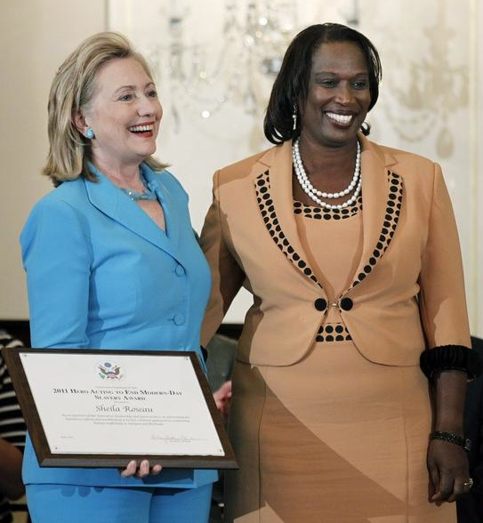 Sheila Roseau of Antigua Receives a TIP Award